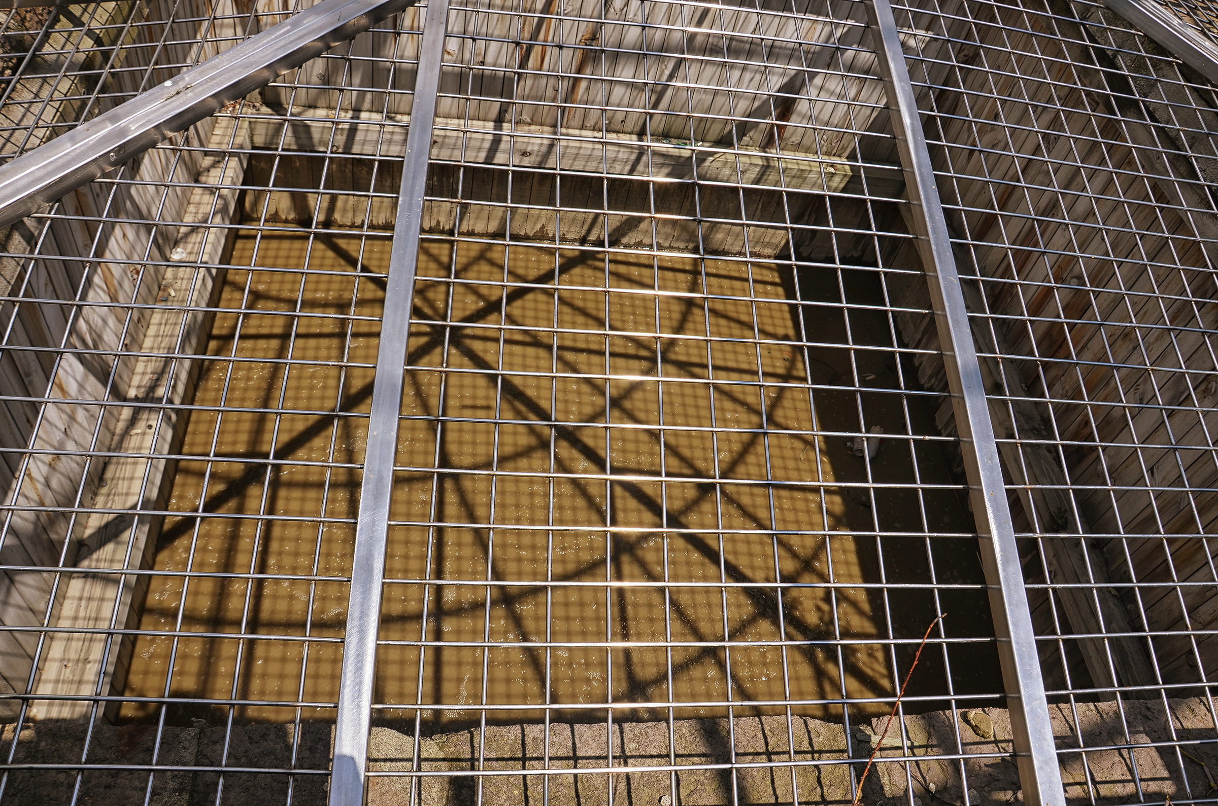 The Devil’s Lake in Covasna